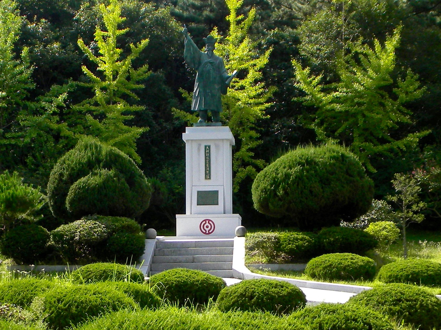 Sttue of Choe Je-u (Su-un), founder of the Cheondo-gyo religion, located at the entrance to the Yeongdamjeong (Yongdam Temple) near Gyeongju, South Korea